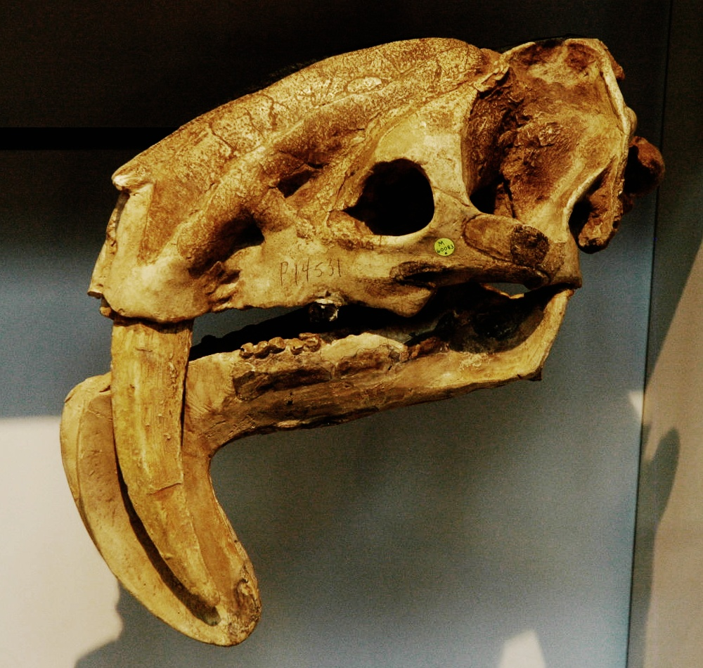 Thylacosmilus sp. skull at the British Museum (Natural History)